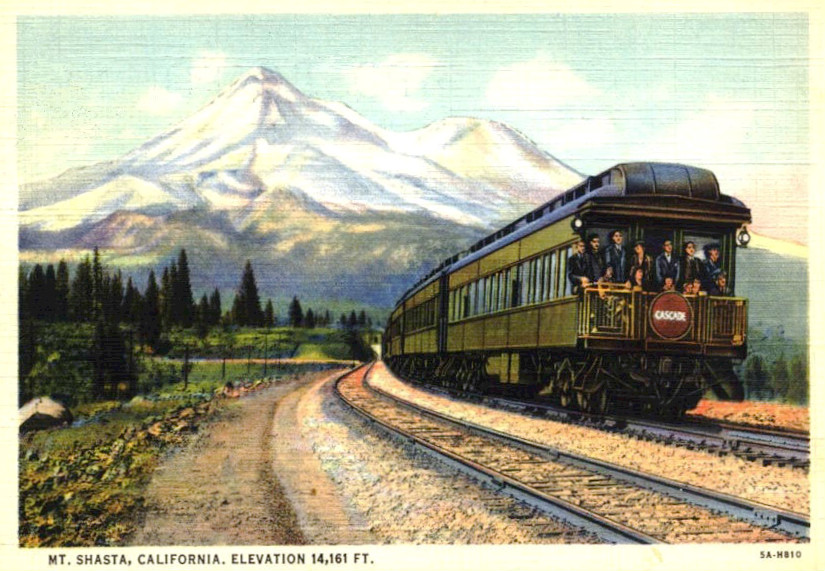 Postcard of the Southern Pacific train the Cascade. The train traveled between Oakland, Caalifornia and Seattle, Washington. This is the older, heavyweight consist.